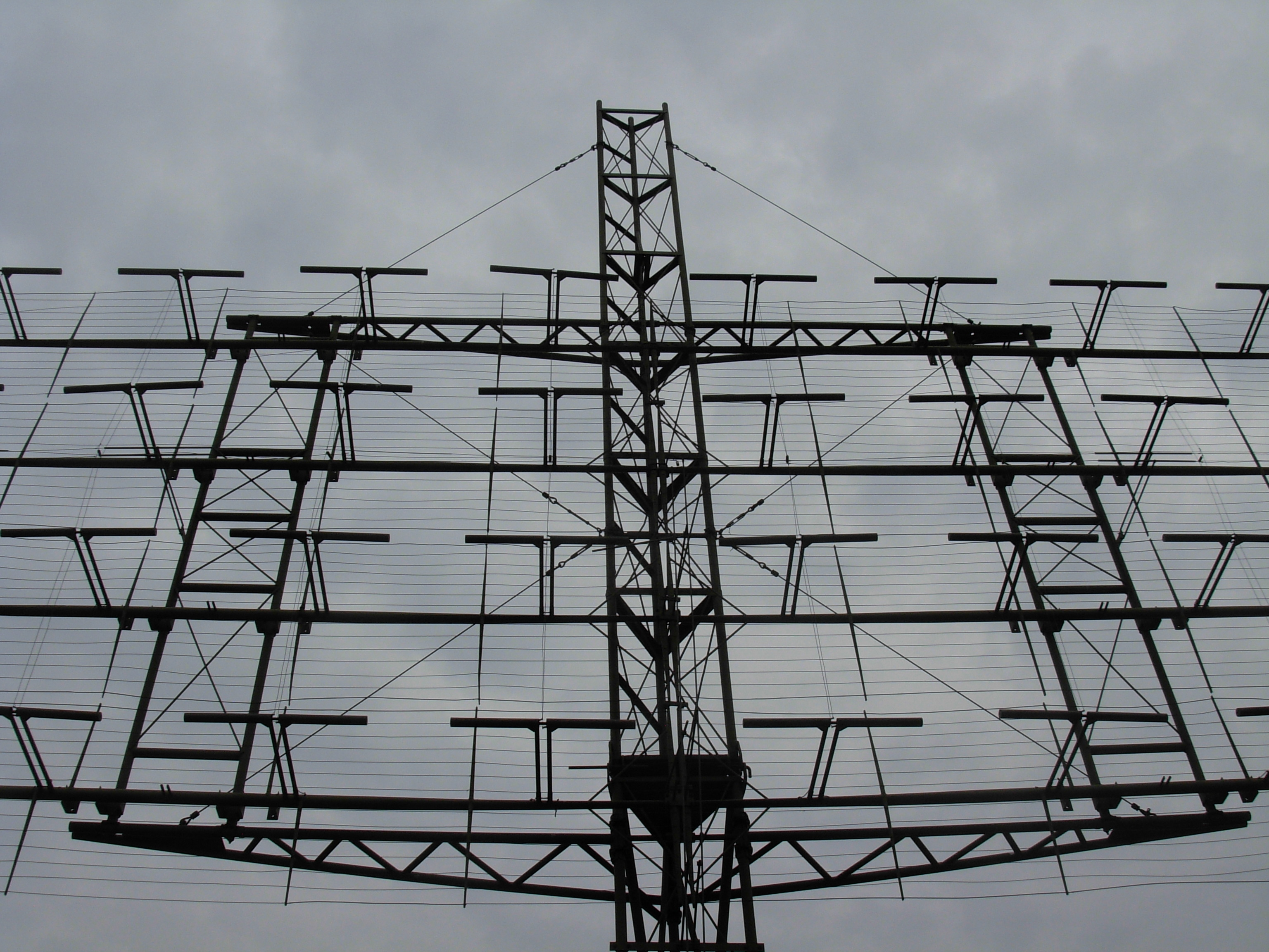 SCR-270 Radar Antenna The SCR-270 radar antenna was part of a mobile radar system, operating at 104 MHz, that could detect and track aircraft at 125 miles. This antenna is a 1943 production version of the radar that tracked the incoming Japanese raid on Oahu, Hawaii on 7 December 1941 This antenna was donated by the Institute of Space and Atmospheric Studies, University of Saskatchewan, Saskatoon, Canada. It was used by the university to study Aurora Borealis at frquencies of 58 and 106 MHz. It collected some of the very first radar echoes from the "Northern Lights" See some more: Historical Electronics Museum Baltimore, Maryland DSCN1621